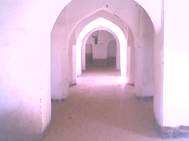 Mosquée du vieux ksar a Béni-Abbés Algerie